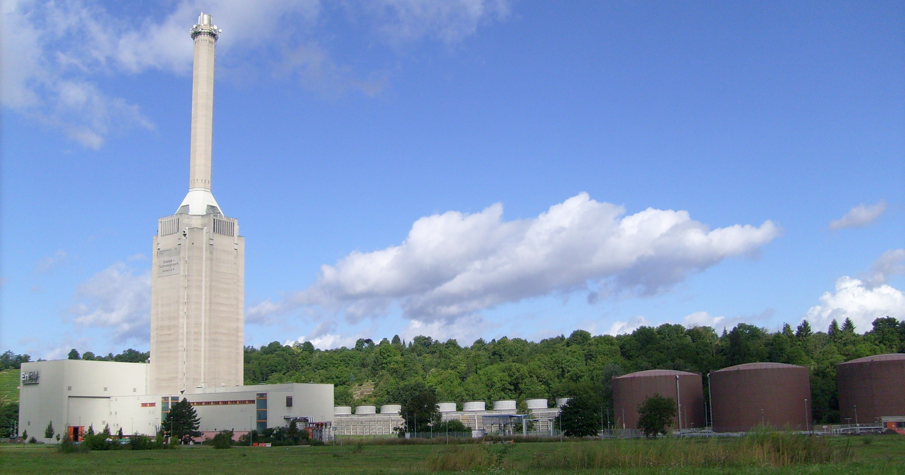 The Marbach power plant near Marbach (Germany)